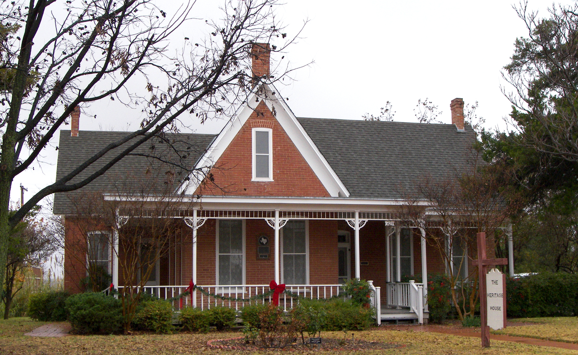 The Scott-Majors House, located at 425 Chestnut St, Colorado City, Texas, United States. It was listed on the National Register of Historic Places on February 5, 1979.